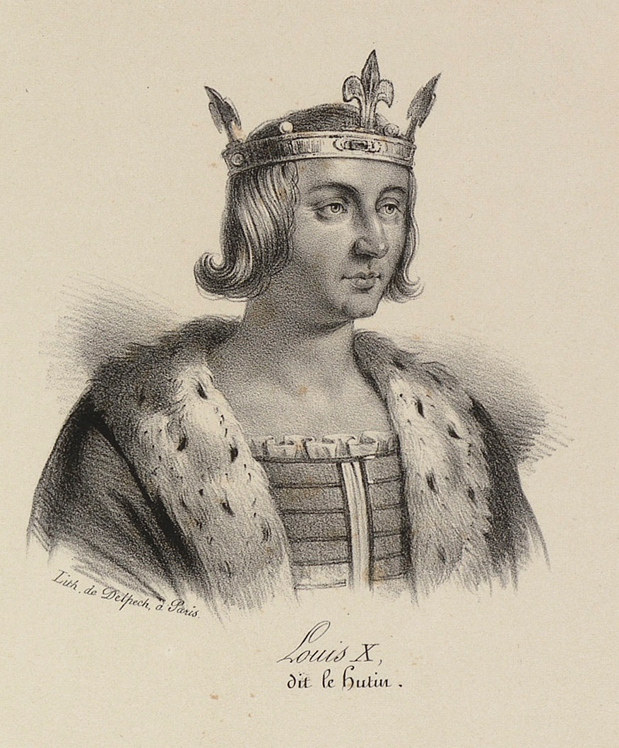 Louis X of France (1289-1316)